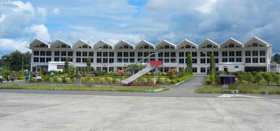 Lengpui Airport Building